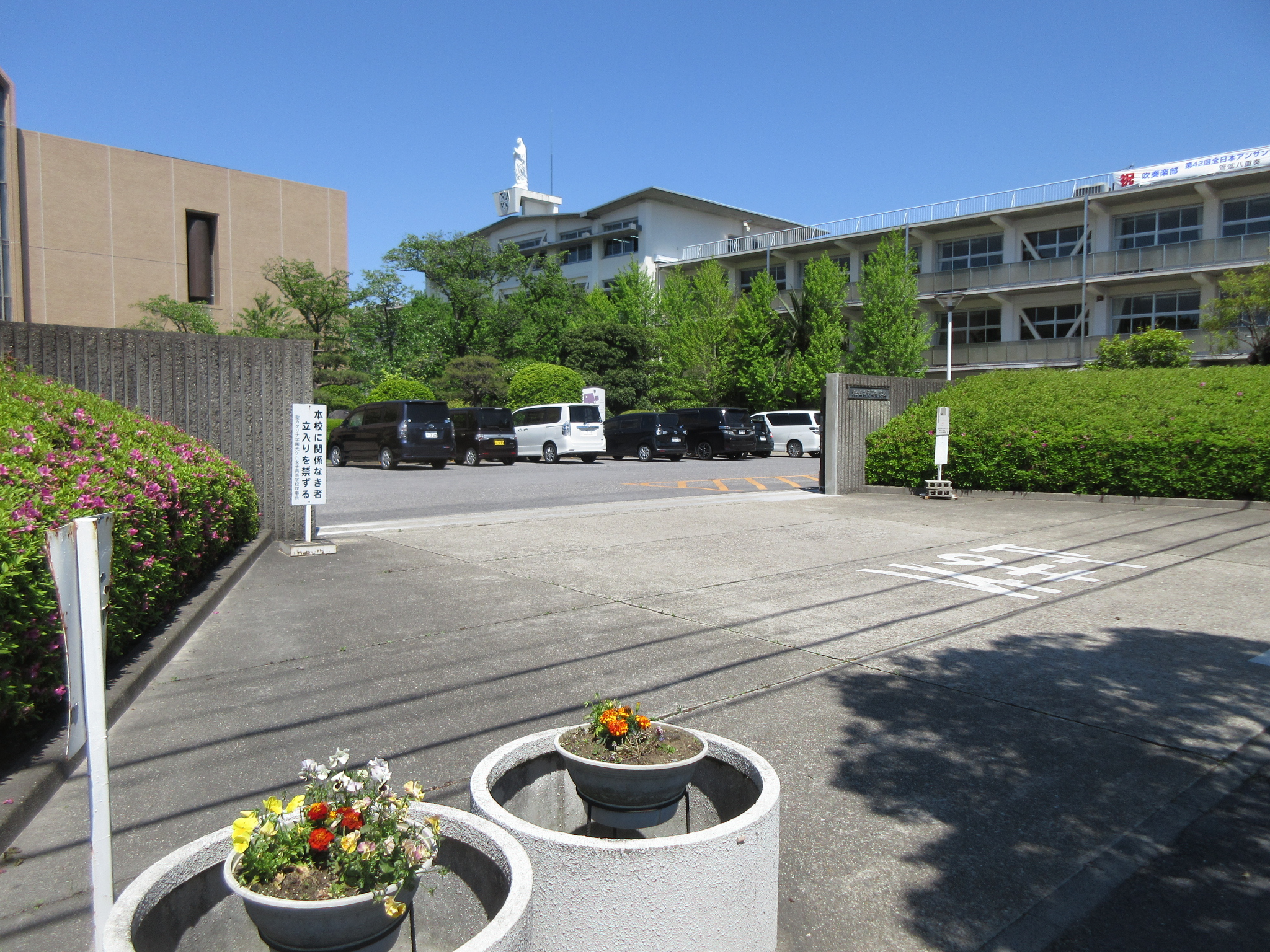 Hikarigaoka Girls' High School (Okazaki, Aichi)